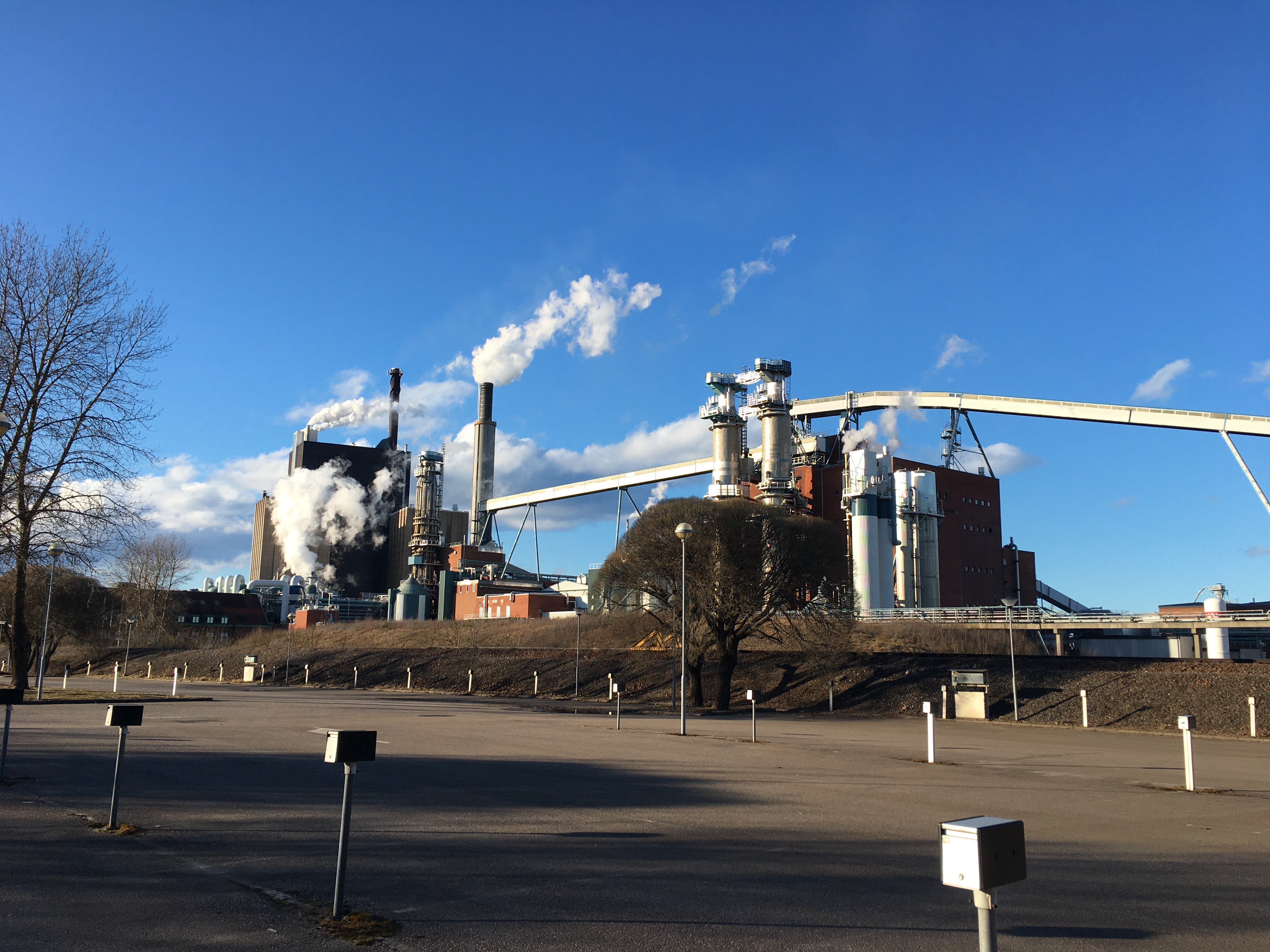 Skutskär Pulp Mill in spring 2020. Photographed from the employer's parking lot